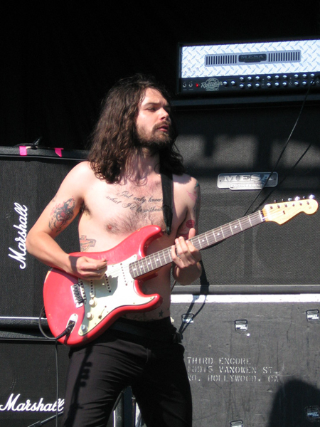 Says on tin. Biffy Clyro at Wraped Tour 2007Biffy Clyro